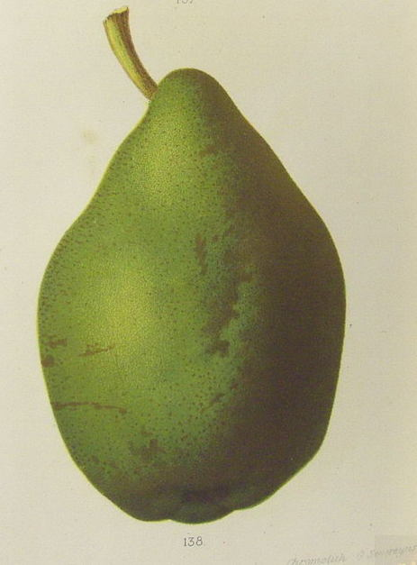 Nouveau Poiteau